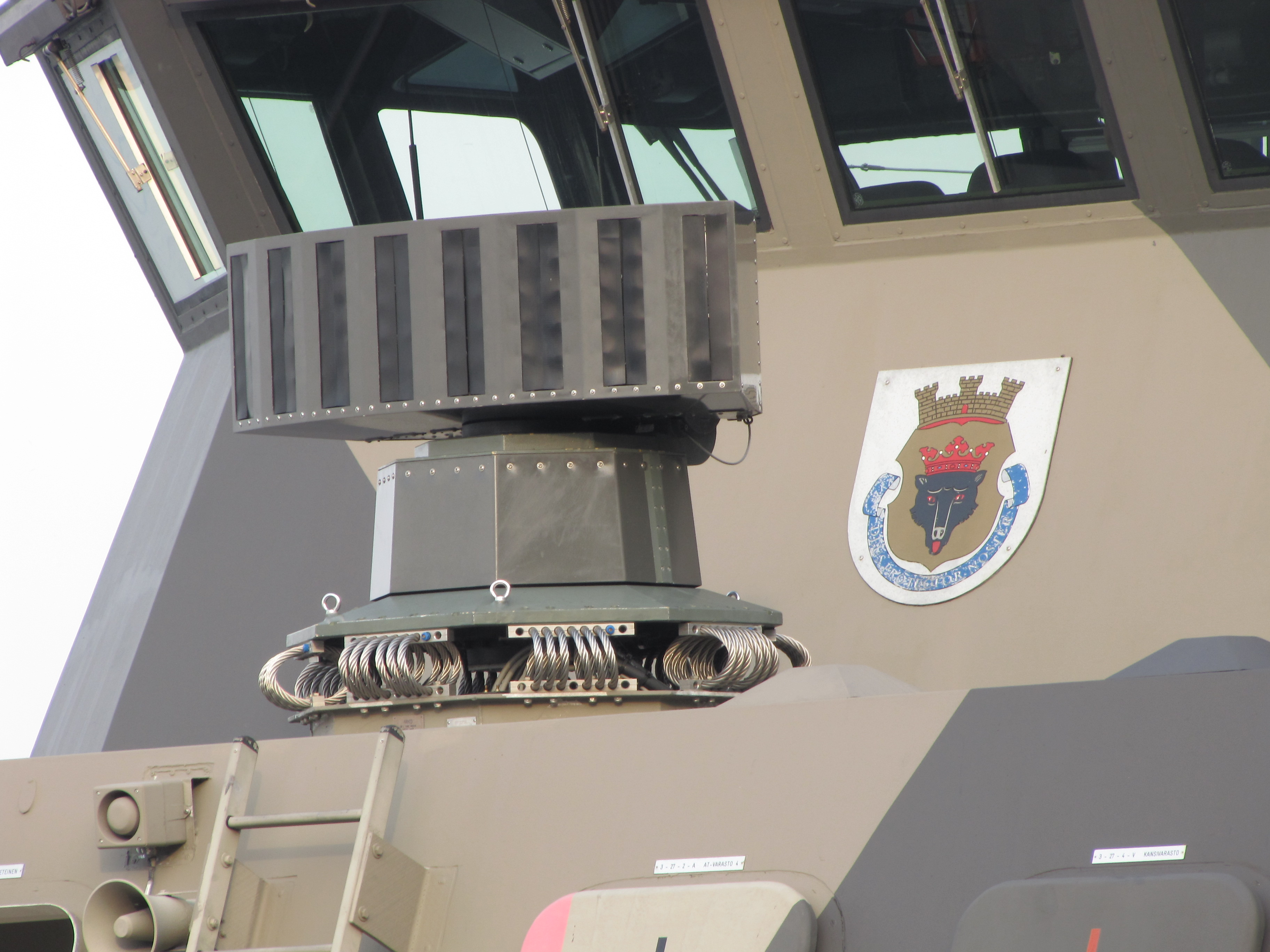 Bow MASS (Multi Ammunition Softkill System) decoy launcher of the Finnish missile boat Pori. Coat of arms of the city of Pori is behind the launcher.